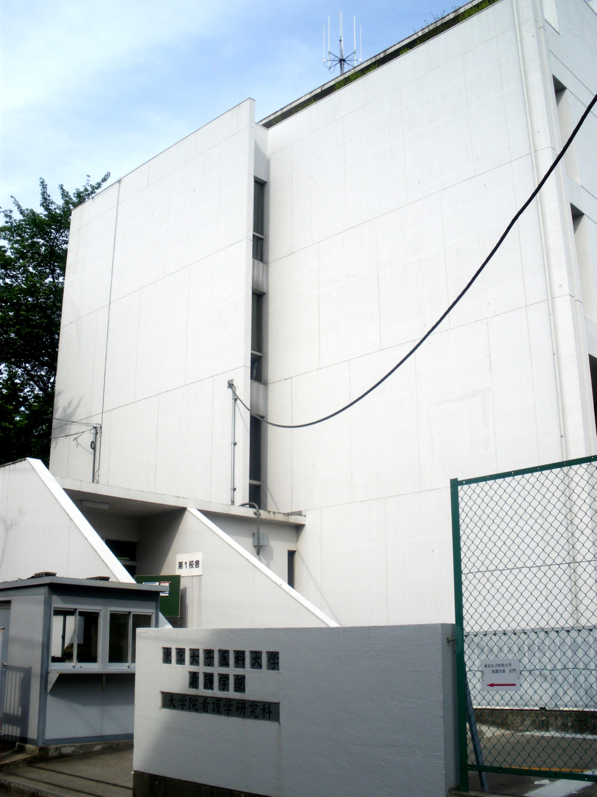 A photo of Tokyo Women's Medical University school of nursing ,Kawadacho,Shinjuku-ku,Tokyo,Japan.